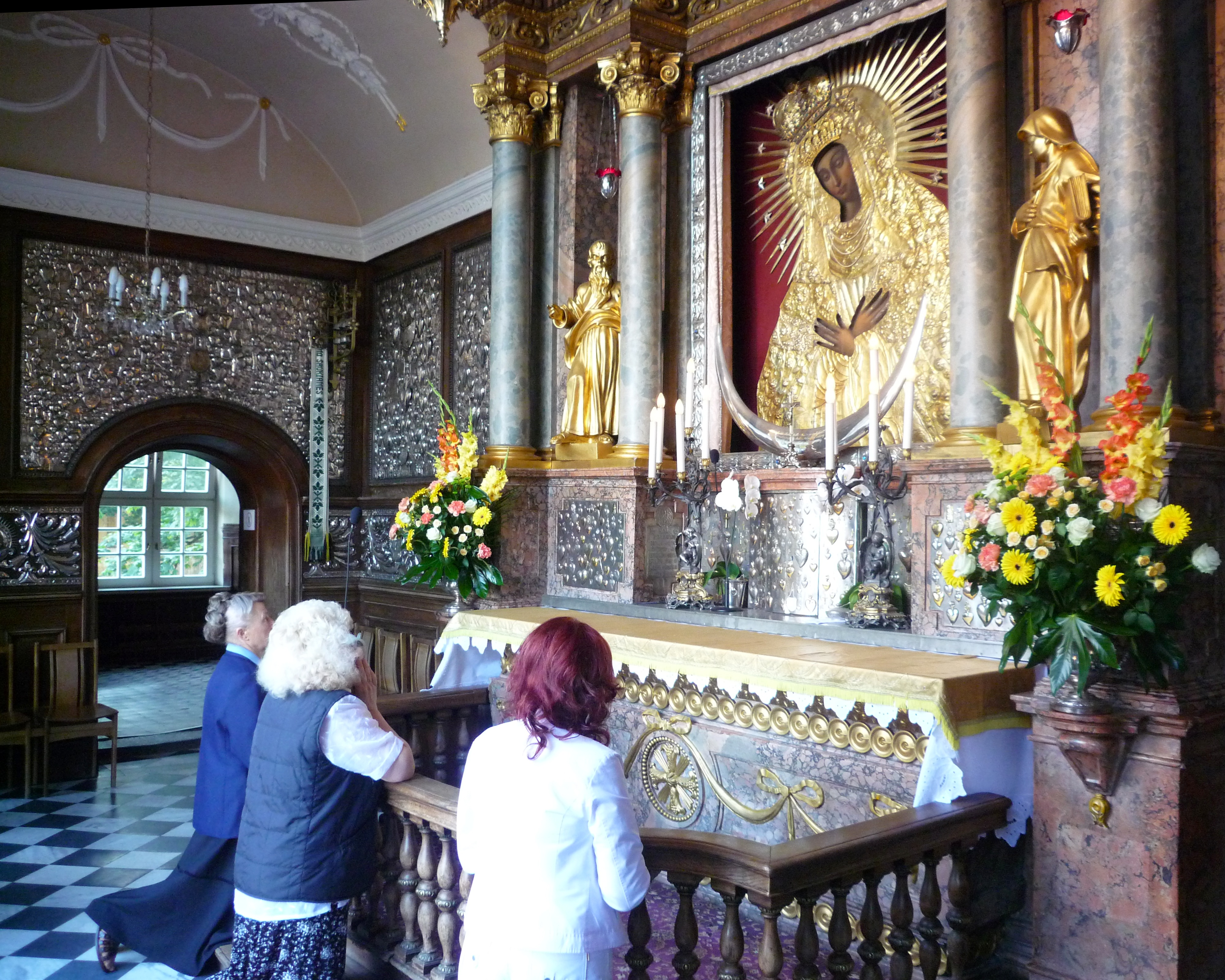 Prayer in the Dawn Gate (Aušros Vartai) chapel